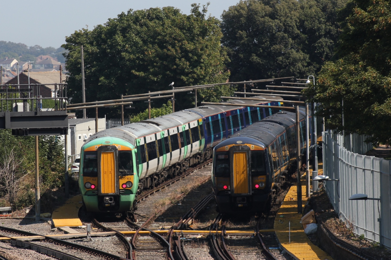 Electric units including 377163 and 375908 in the carriage sidings adjacent to Ramsgate station. While both trains are operated by Southeastern, the class 377 carries the white and green colours of Southern, its previous operator.